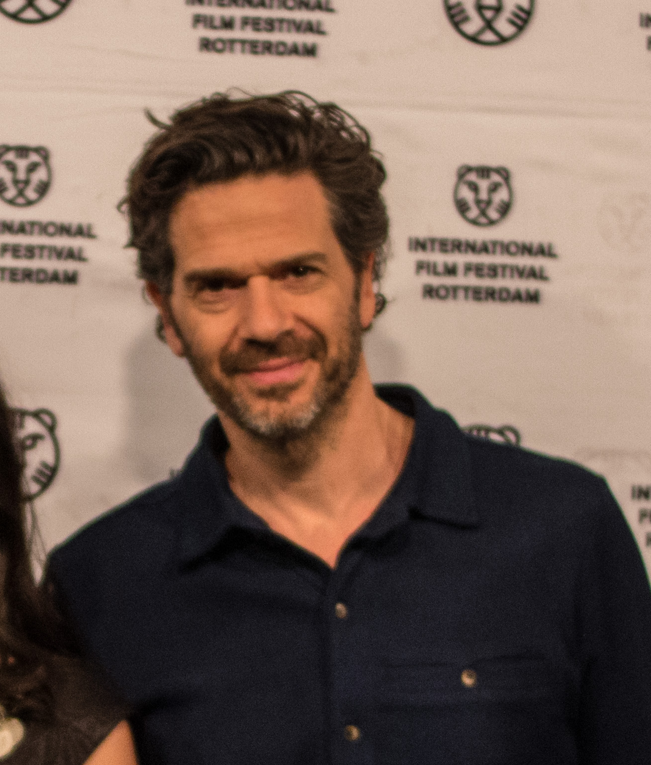 Ishai Golan at premiere of The Reports on Sarah and Saleem during the International Film Festival Rotterdam 2018